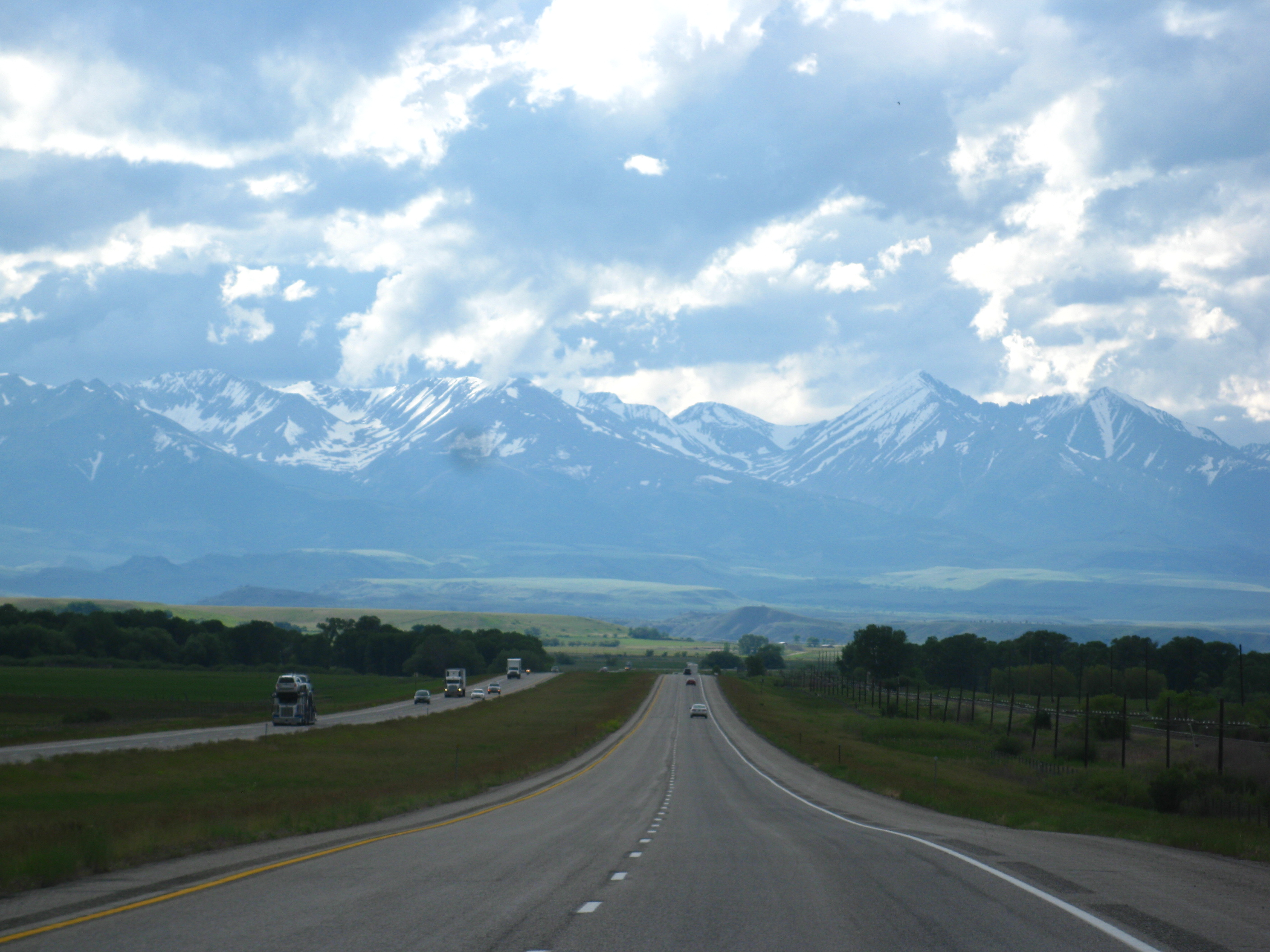 Interstate 90 west of Park City, Montana, facing west.